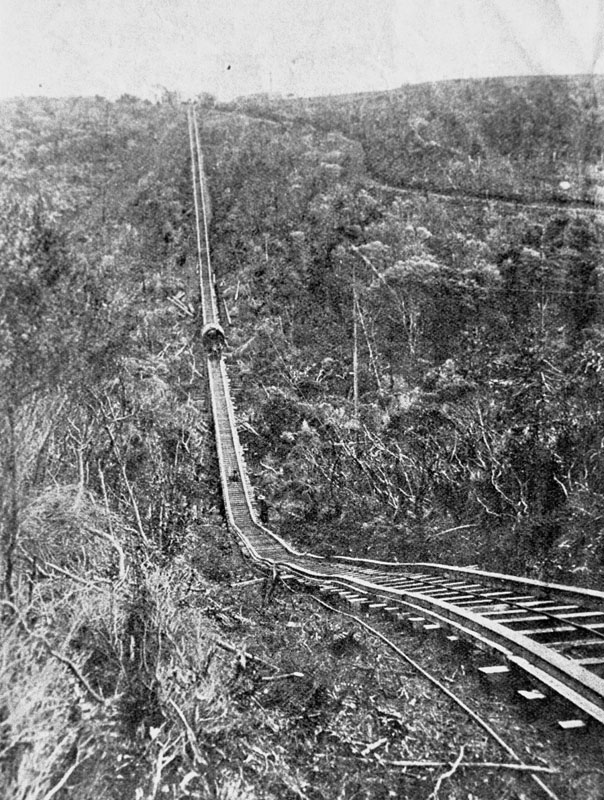 A big undertaking: hauling a boiler up the inclined tramway at Piha. The Piha Tramway incline up to the hauler on Piha Road with a boiler on the tramway. Text from Auckland Weekly News, 29 December 1910: "The establishment of a sawmill in the Kerikeri [Karekare] Bush has proved to be a matter of the utmost diffulty. All the plant has to be hauled up a bush tramway which in several places has a grade of one in one or, in other words, a slope of 45 degrees. The negotiation of a 10-ton boiler over such a track is a matter of not a little difficulty, and it says a great deal for the perseverance and ingenuity of the New Zealand bushman that the problem was recently solved, and the raising of the boiler effected without any more serious mishap than an occasional slight derailment, such as that shown in this photograph. There is over a mile of tramway - which is the steepest line in existence in any part of the world - so that the job naturally occupied several days." See also article in: West of Eden, Journal of the West Auckland Historical Society, Issue 2, p.14-21 (Jan 2009). File Created by: New Zealand Micrographic Services Ltd. on behalf of Waitakere Library & Information Services, 2008